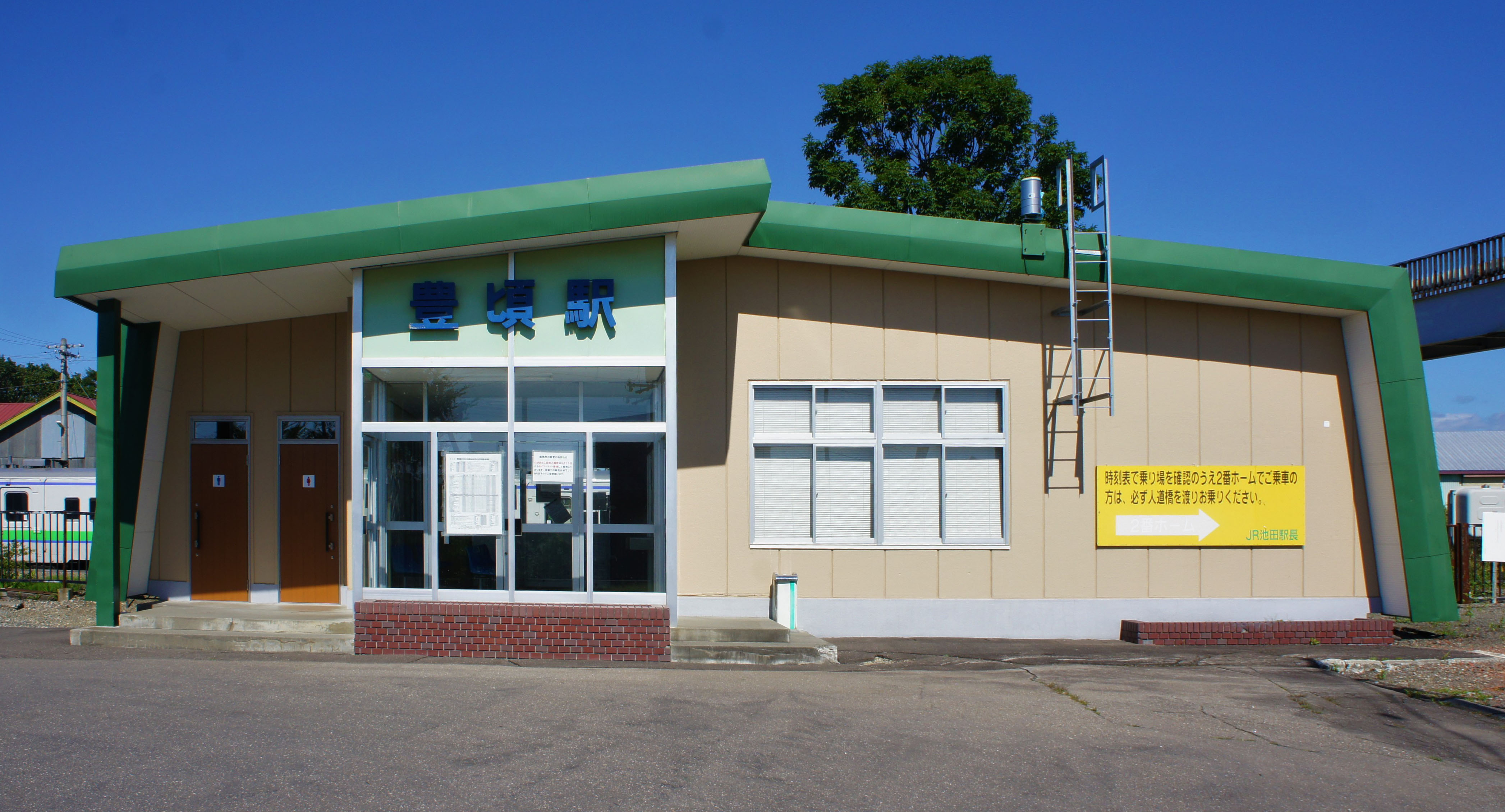 Station building of JR Nemuro-Main-Line Toyokoro Station